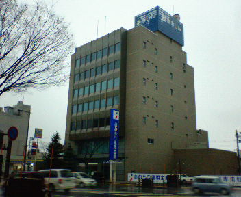 Aomori Shinkin Bank Head Shop Office